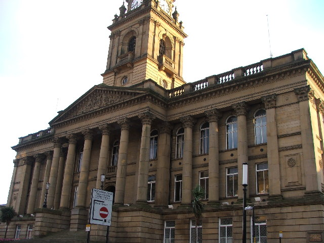 Morley Town Hall.